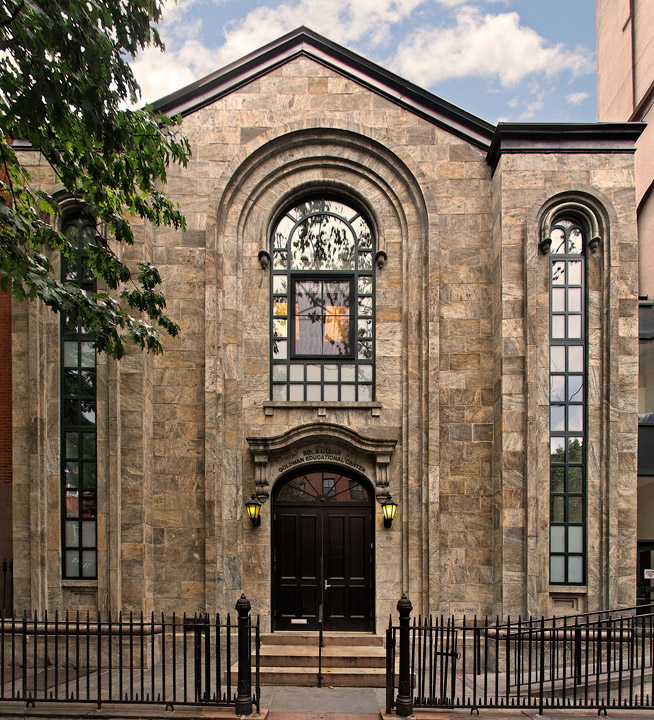 Goldman Education Center, Congregation Baith Israel Anshei Emes/The Kane Street synagogue